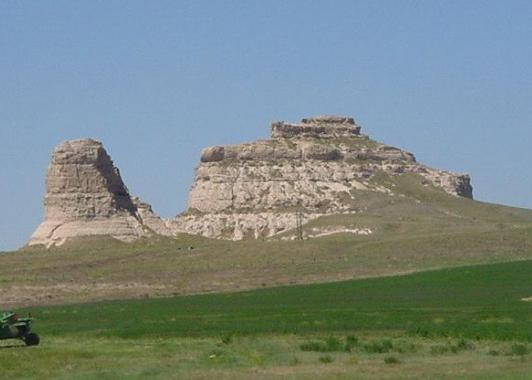 Courthouse and Jail Rocks. Photographed in Bridgeport, Nebraska on June 5, 2004.